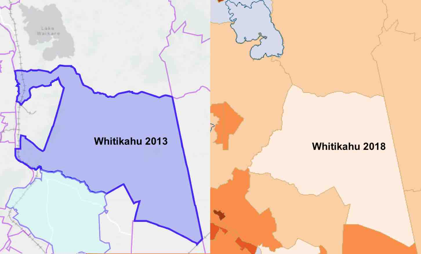 Whitkahu census areas